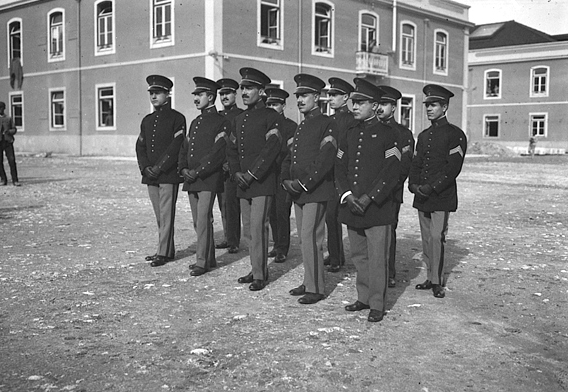 See below.